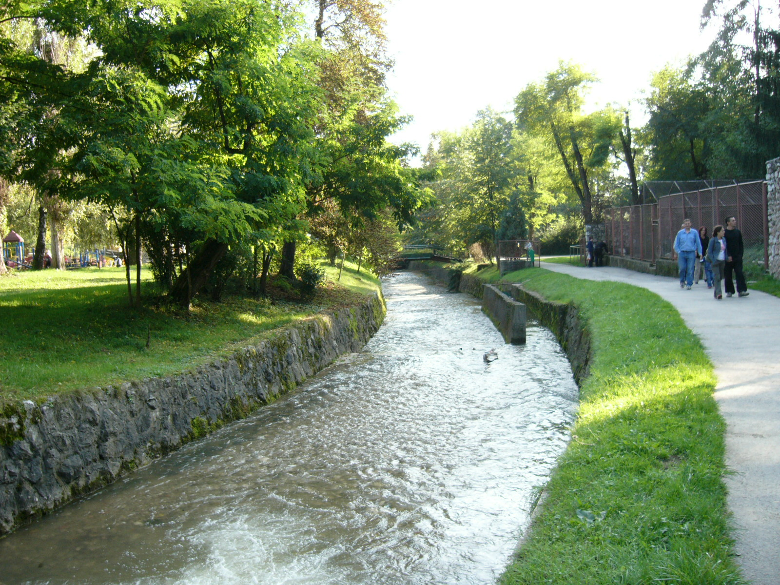 Koševski potok (Koševo stream) flows through Pionirska dolina Sarajevo Zoo and park